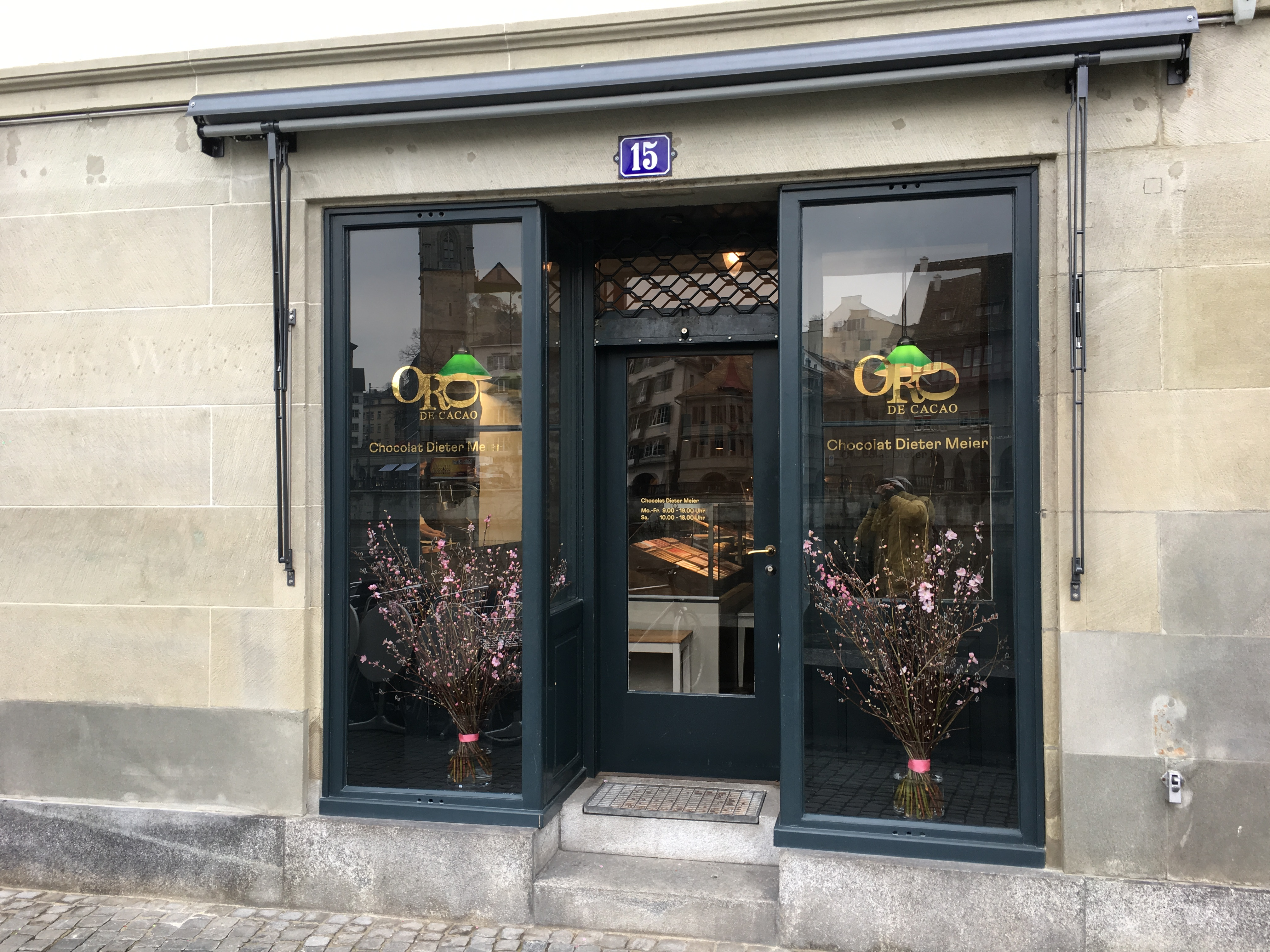 Chocolate store of Dieter Meier in Zurich „Oro de Cacao“: Chocolat Dieter Meier (Wühre 15, CH-8001 Zürich)